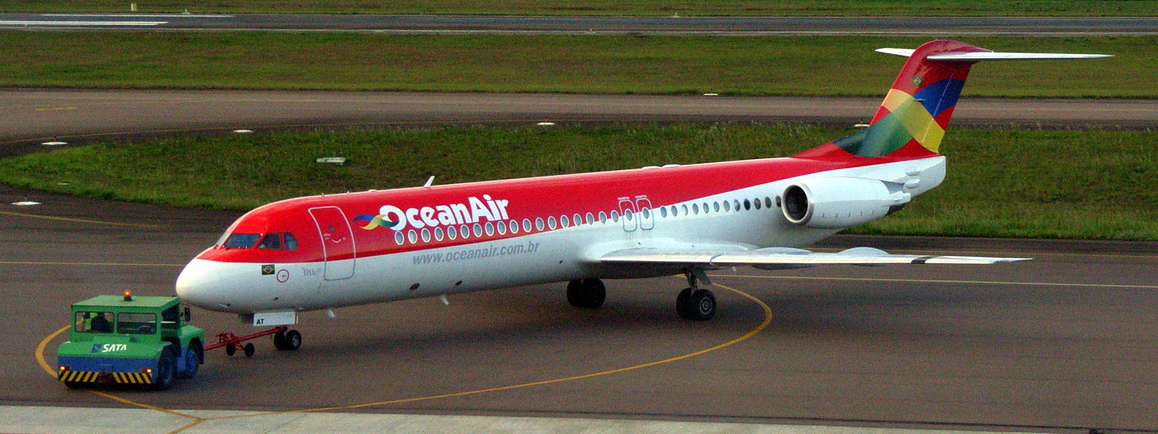 OceanAir, a Fokker F100, at the Afonso Pena International Airport